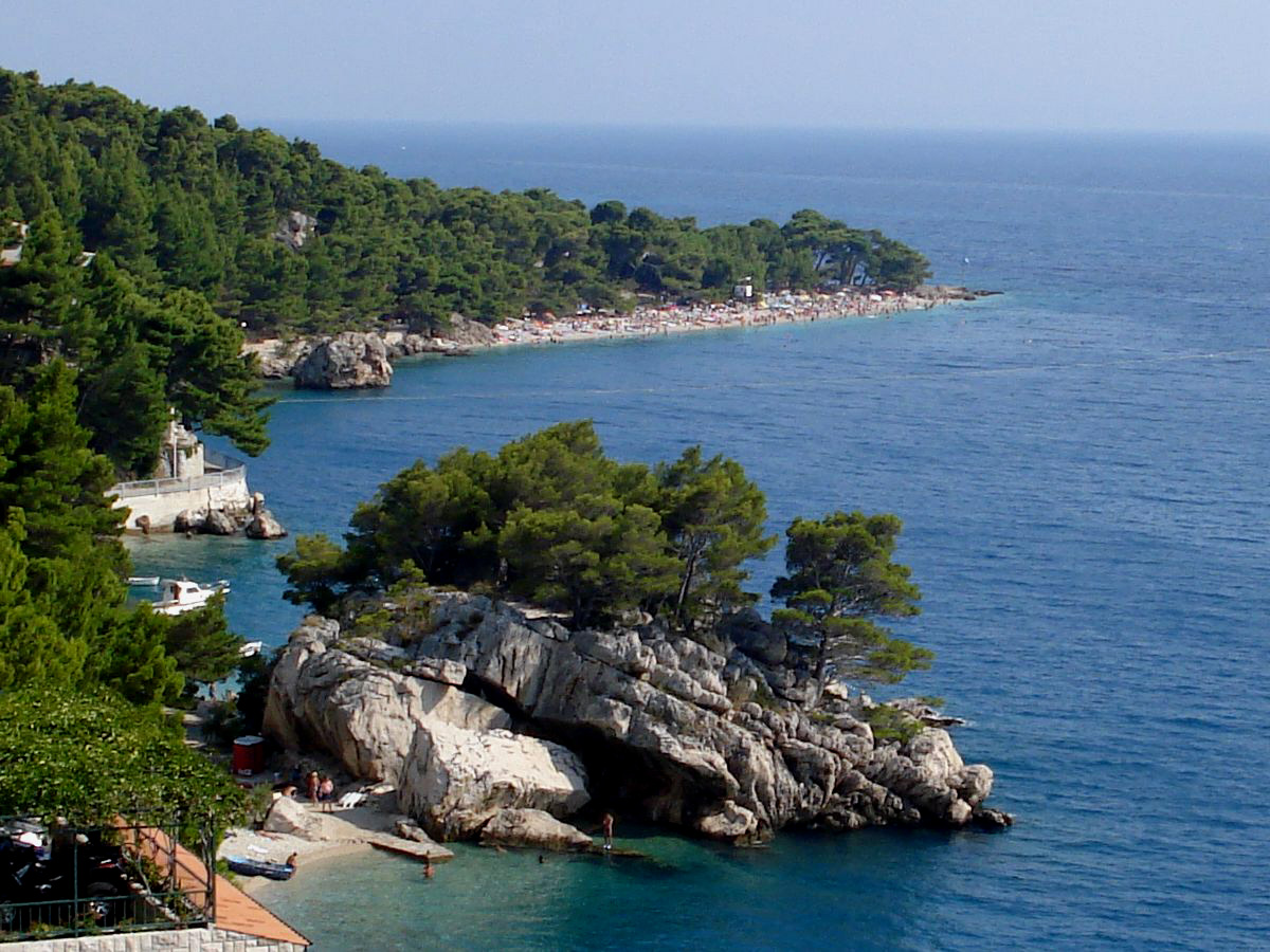 Panoramic view of beach Liskamen (front) and beach Punta Rata in Brela.